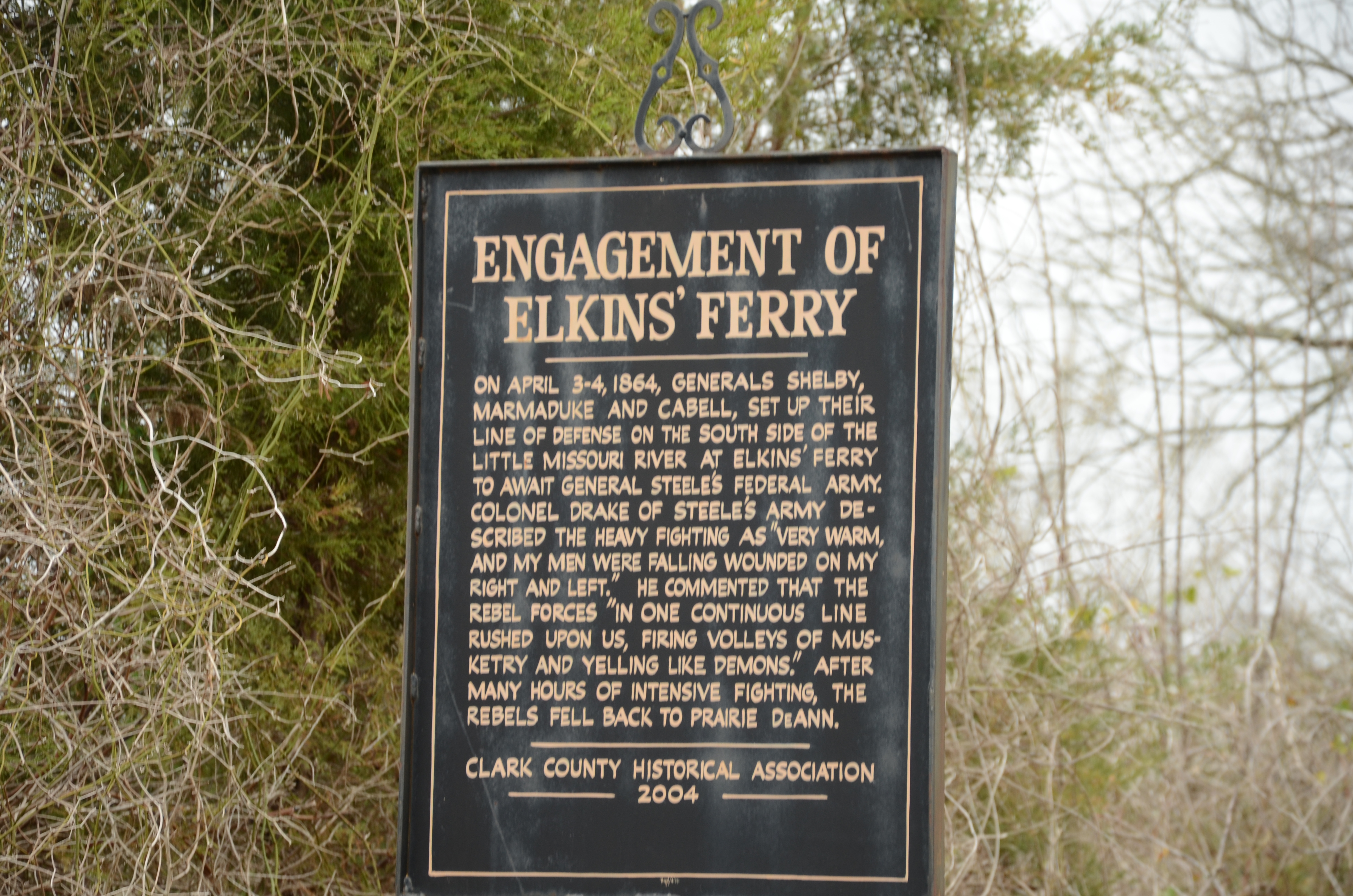 Elkins' Ferry